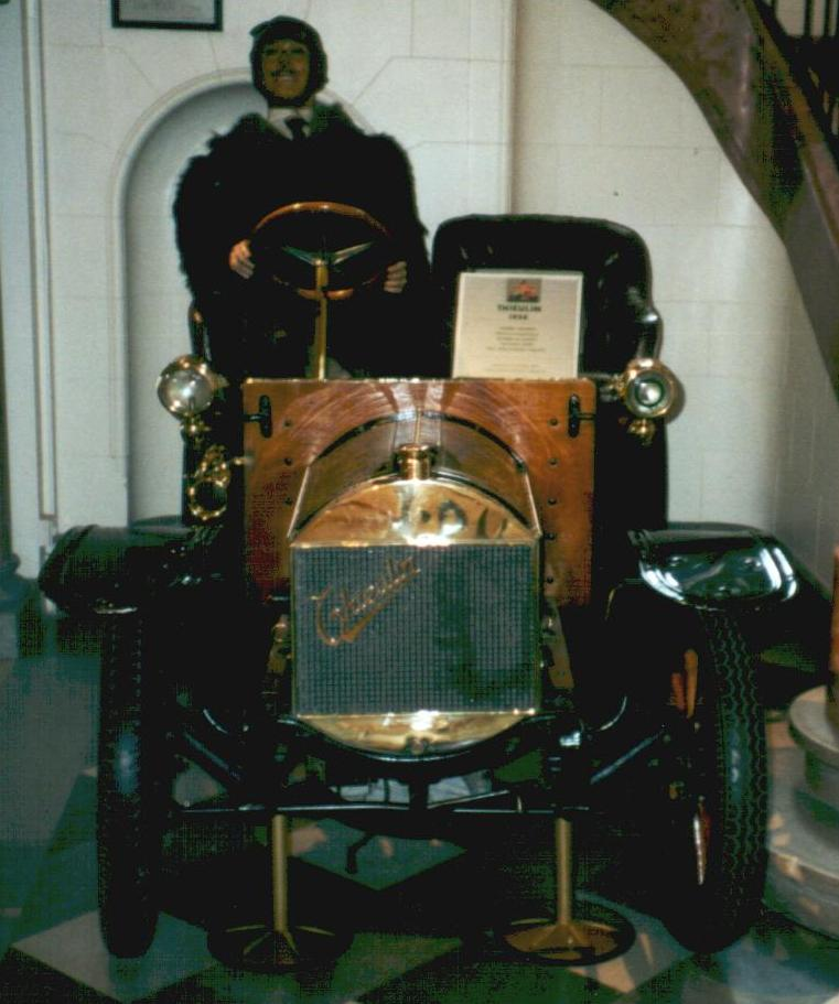 Thieulin 1908 (Country of origin: France)